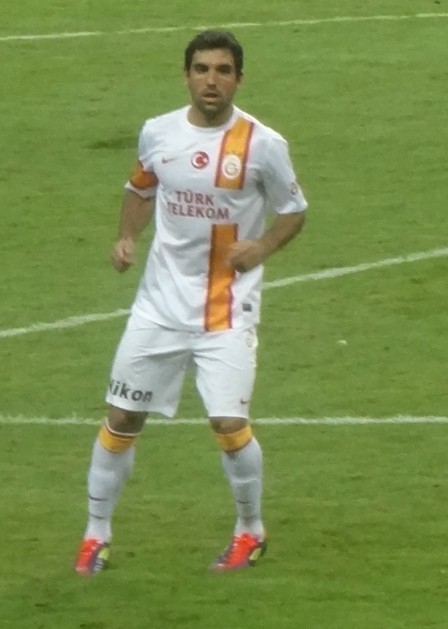 Culio against Fiorentina at TT Arena